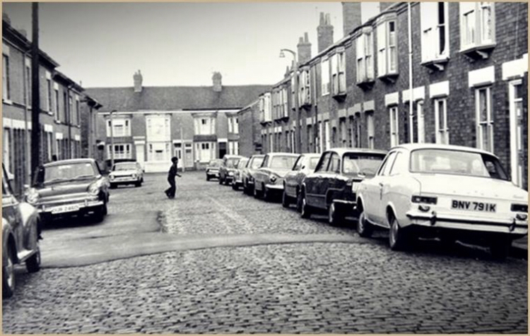 Agar Street, Belgrave, Leicester in 1976